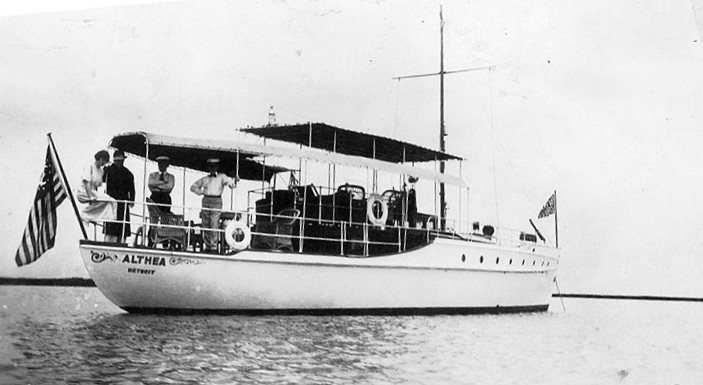 American Motor Boat, Althea (1907) at anchor, probably in the Great Lakes area, prior to World War I. Acquired by the Navy for wartime service, this pleasure craft was commissioned as USS Althea (SP-218) on 12 May 1917. While awaiting sale, she sank on 18 March 1920 and was sold "in sunken condition" on 12 May 1920.